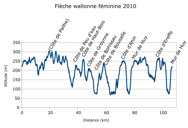 Profile of Flèche wallonne féminine 2010 and 2011.